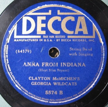 Anna from Indiana by Clayton McMichen's Georgia Wildcats, Decca 1937.